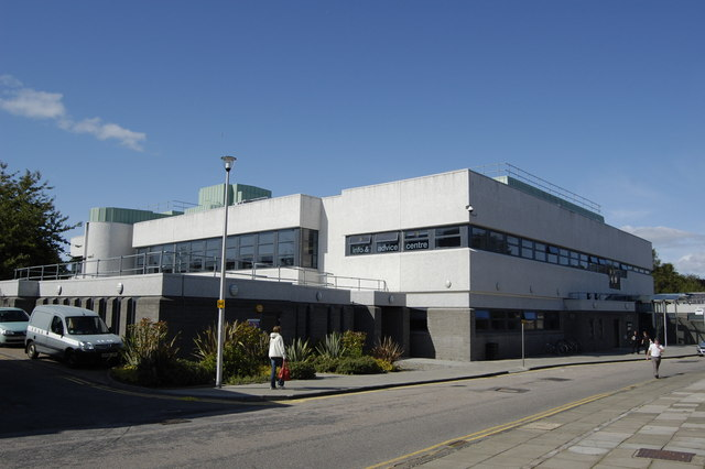 The Hub Student service centre at the University of Aberdeen.